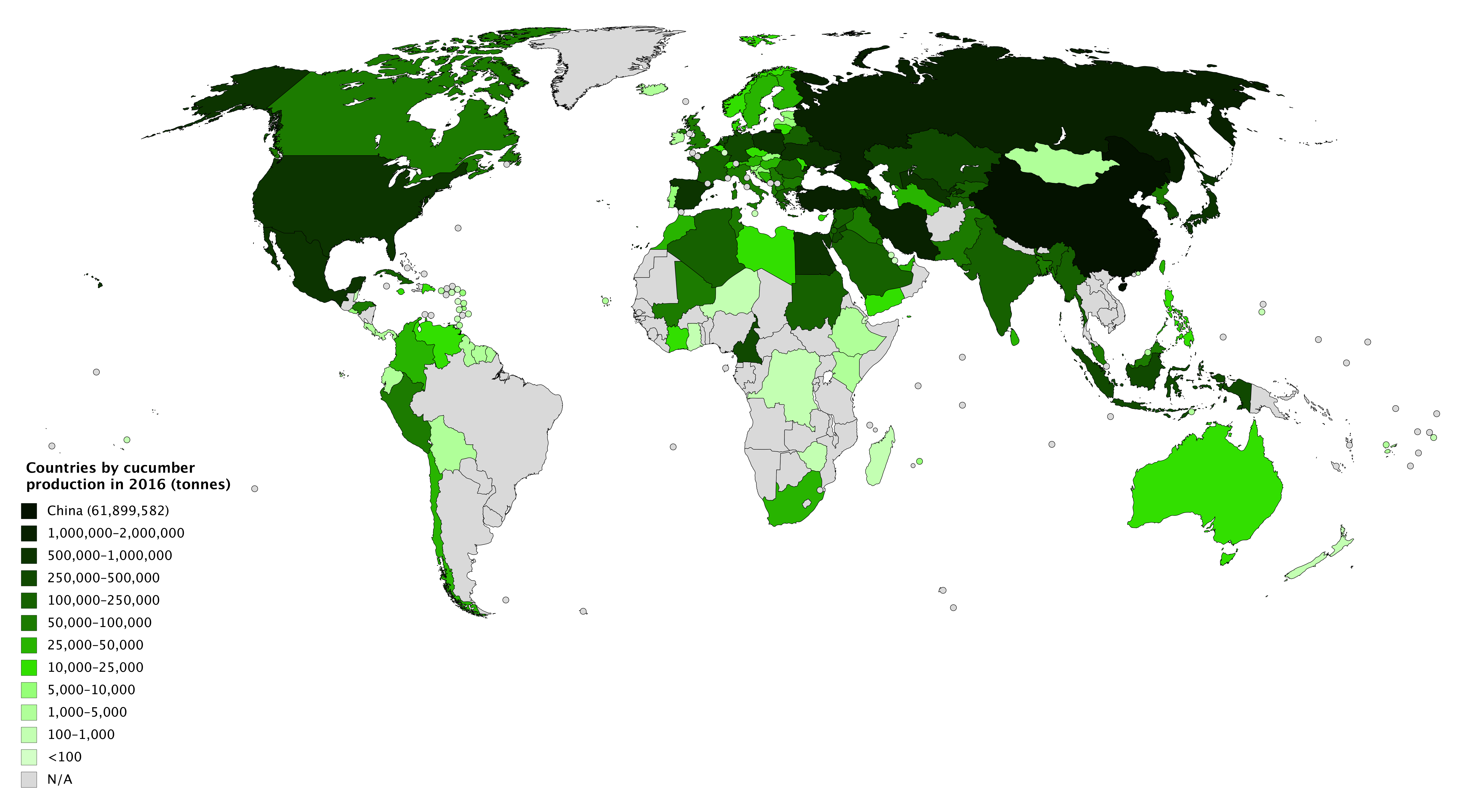 A choropleth map showing countries by cucumber (including gherkin) production in tonnes, based on 2016 data from the Food and Agriculture Organization Corporate Statistical Database (FAOSTAT).